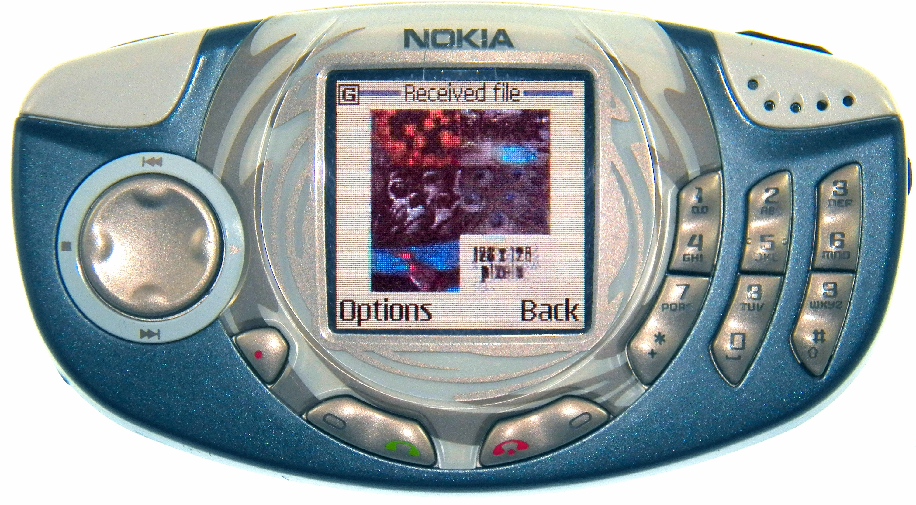 Nokia 3300 mobile phone, circa 2003